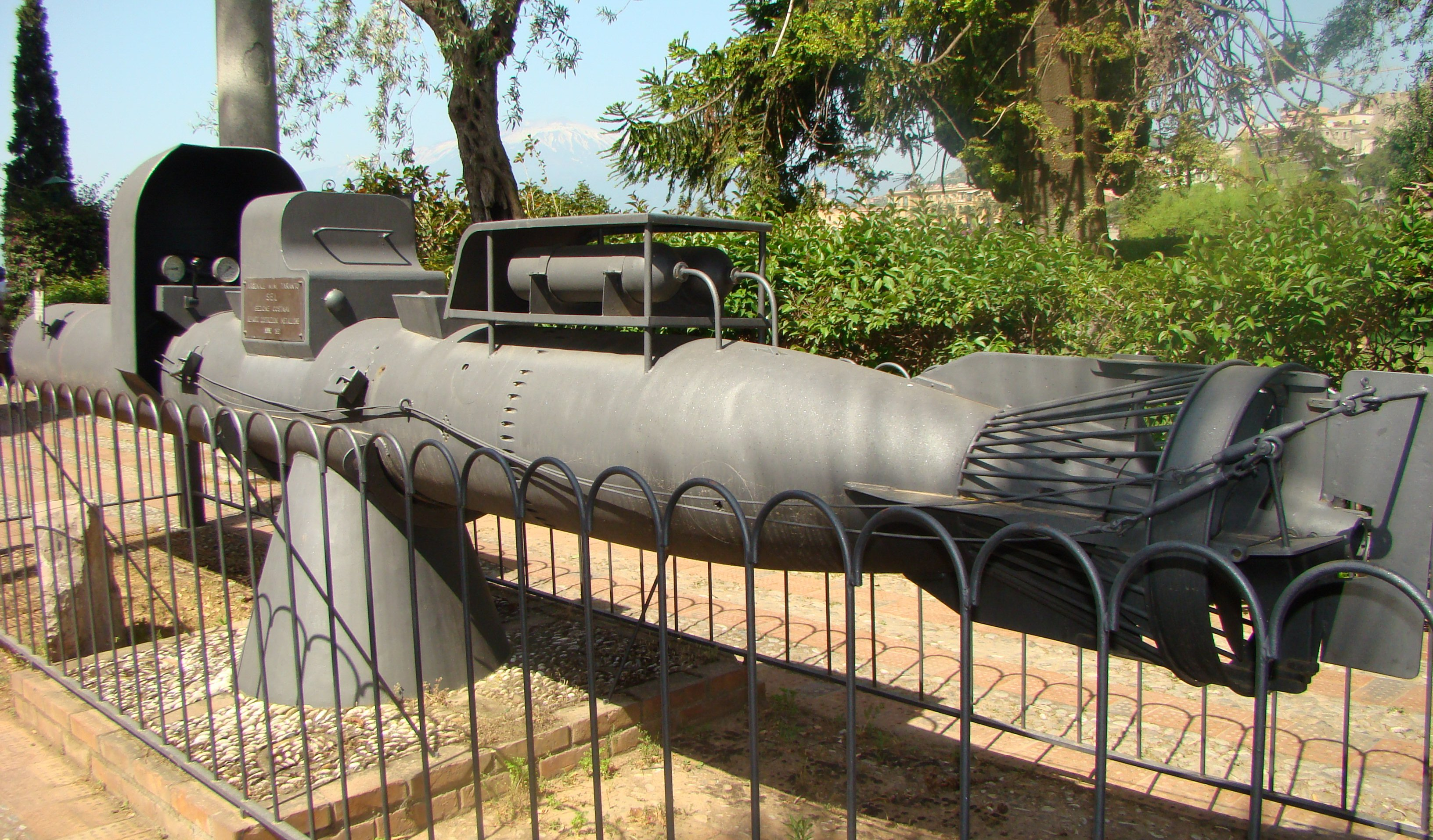 Italian manned torpedo Maiale.